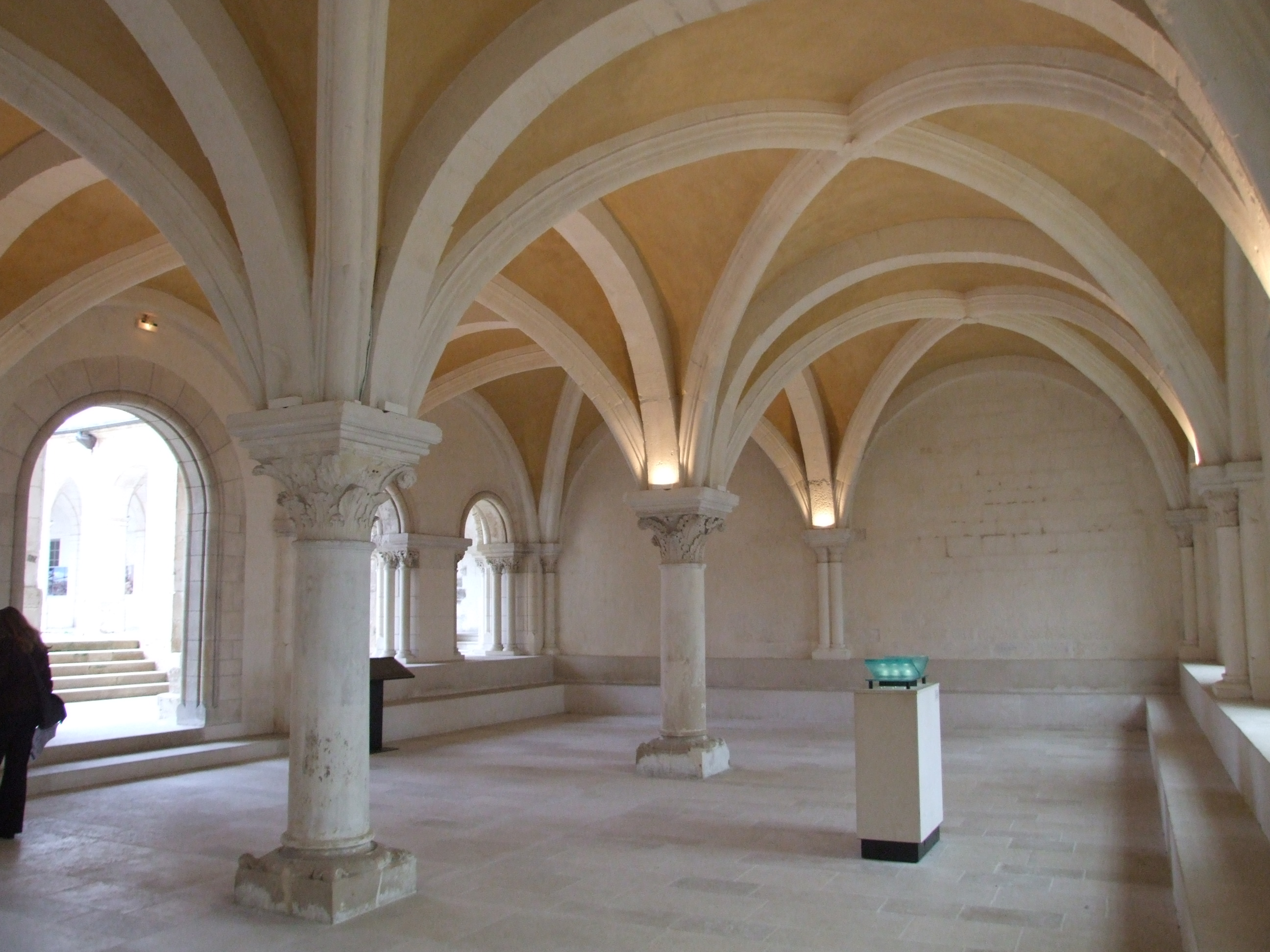 Saint-Germain abbey, Auxerre, Yonne, Burgundy, FRANCE